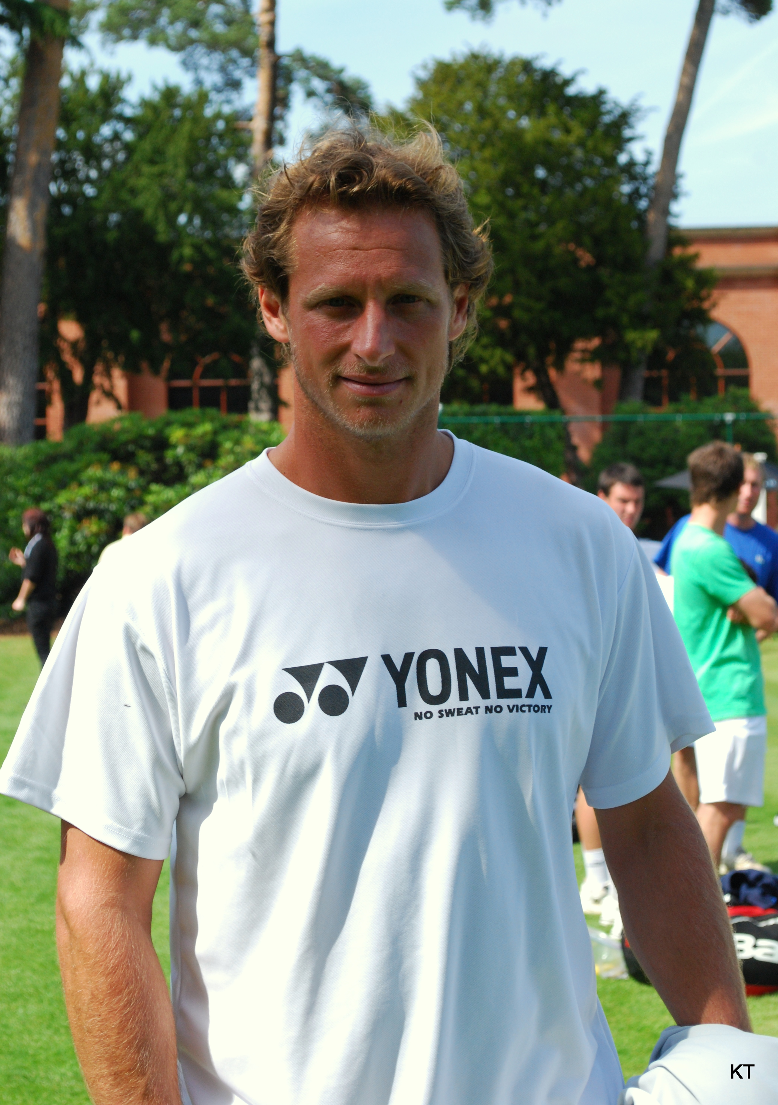 The Boodles, Stoke Park, 2011.